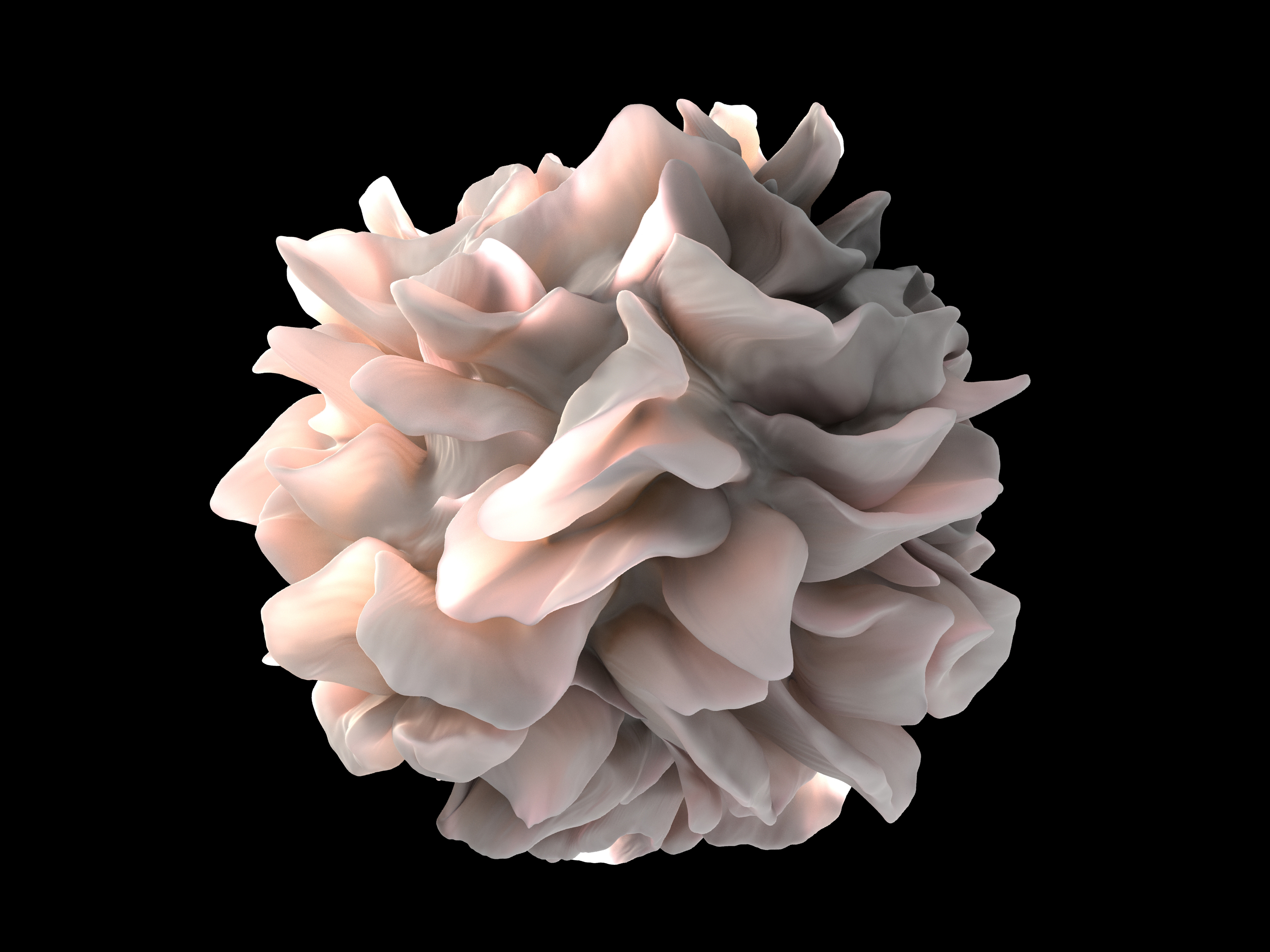 Title: Dendritic cell revealed Description: Artistic rendering of the surface of a human dendritic cell illustrating sheet-like processes that fold back onto the membrane surface. When exposed to HIV, these sheets entrap viruses in the vicinity and focus them to contact zones with T-cells targeted for infection. These studies were carried out using ion abrasion scanning electron microscopy, a new technology we have been developing and applying for 3D cellular imaging. Categories: Research in NIH Labs and Clinics Type: Color, Diagram Source: National Cancer Institute (NCI) Creator: Don Bliss, Sriram Subramaniam Date Created: Unknown Date Added: 5/24/2012 Reuse Restrictions: None - This image is in the public domain and can be freely reused. Please credit the source and/or author listed above.